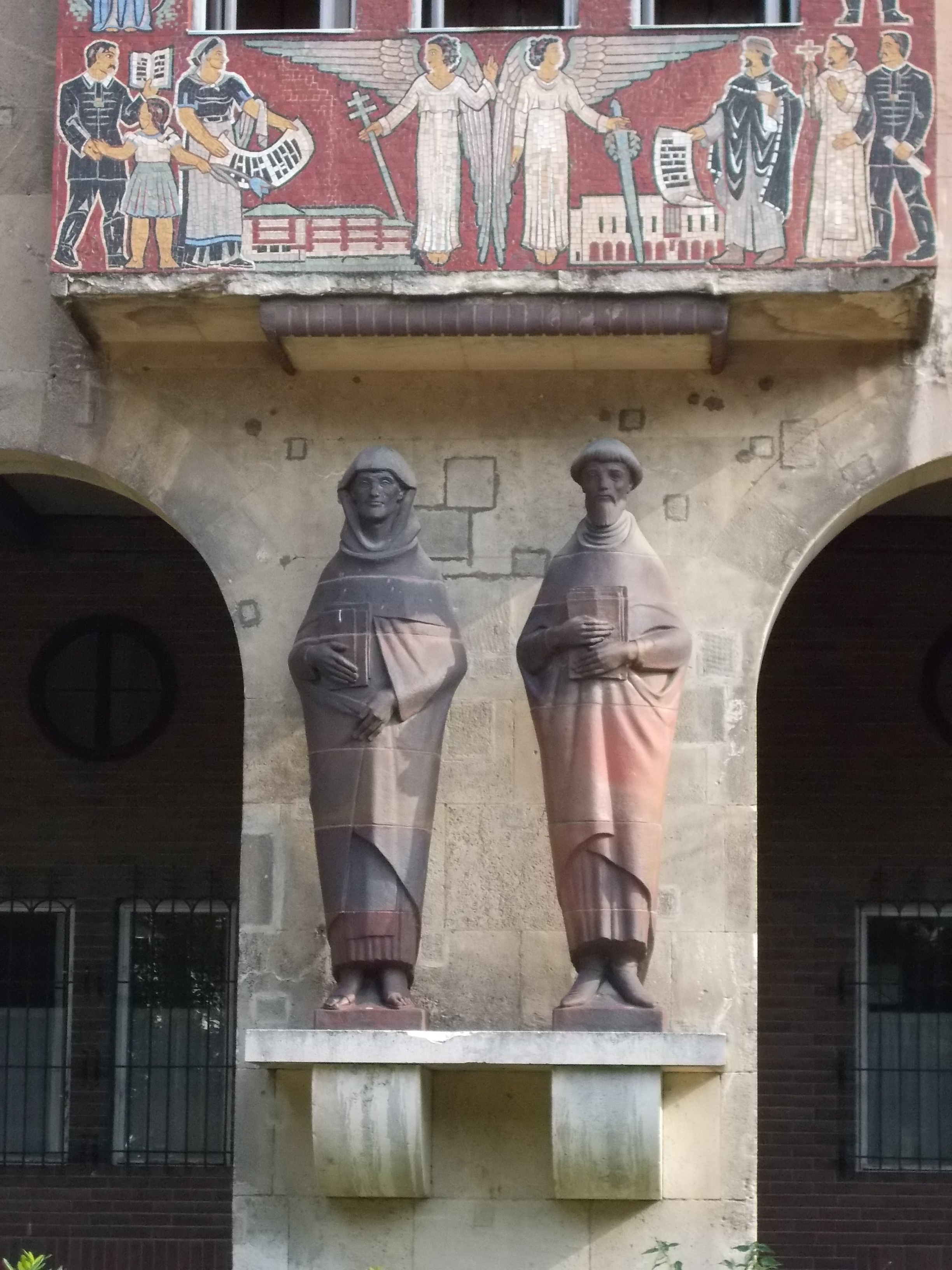 Kézai Simon, Kálti Márk. Avagy a 'Krónikások' bronz szobra Metky Ödön alkotása, 1967 Vörösmarty Mihály Megyei Könyvtár és Csók István Képtár műemlék épület kiugró zárt erkélye alatt látható. Műemlék ID 11159. - Magyarország, Fejér megye, Székesfehérvár, Belváros, Oskola utca This is a photo of a monument in Hungary. Identifier: 11159